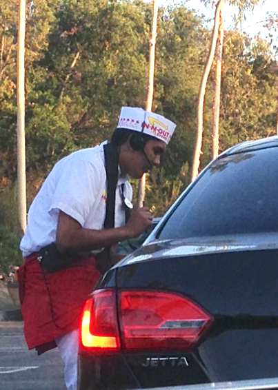 Some In-N-Out locations have implemented a hybrid drive-thru system during peak hours (e.g., lunch or dinner), replacing the traditional intercom-based order-taking system with as many as four employees working outdoors.